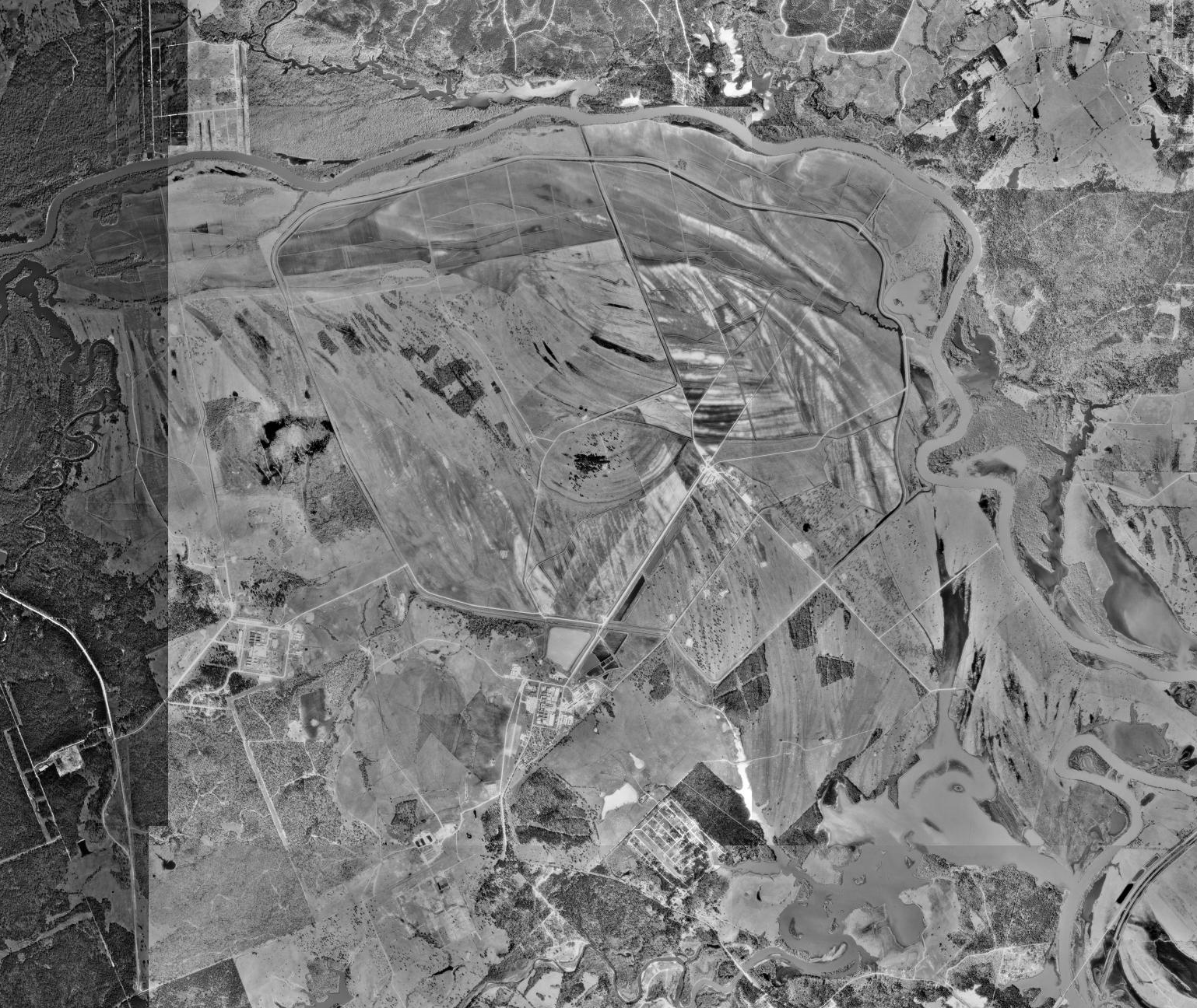 USGS orthophoto of the Ellis Unit (Ellis I) and the Estelle Unit (Ellis II) in Texas